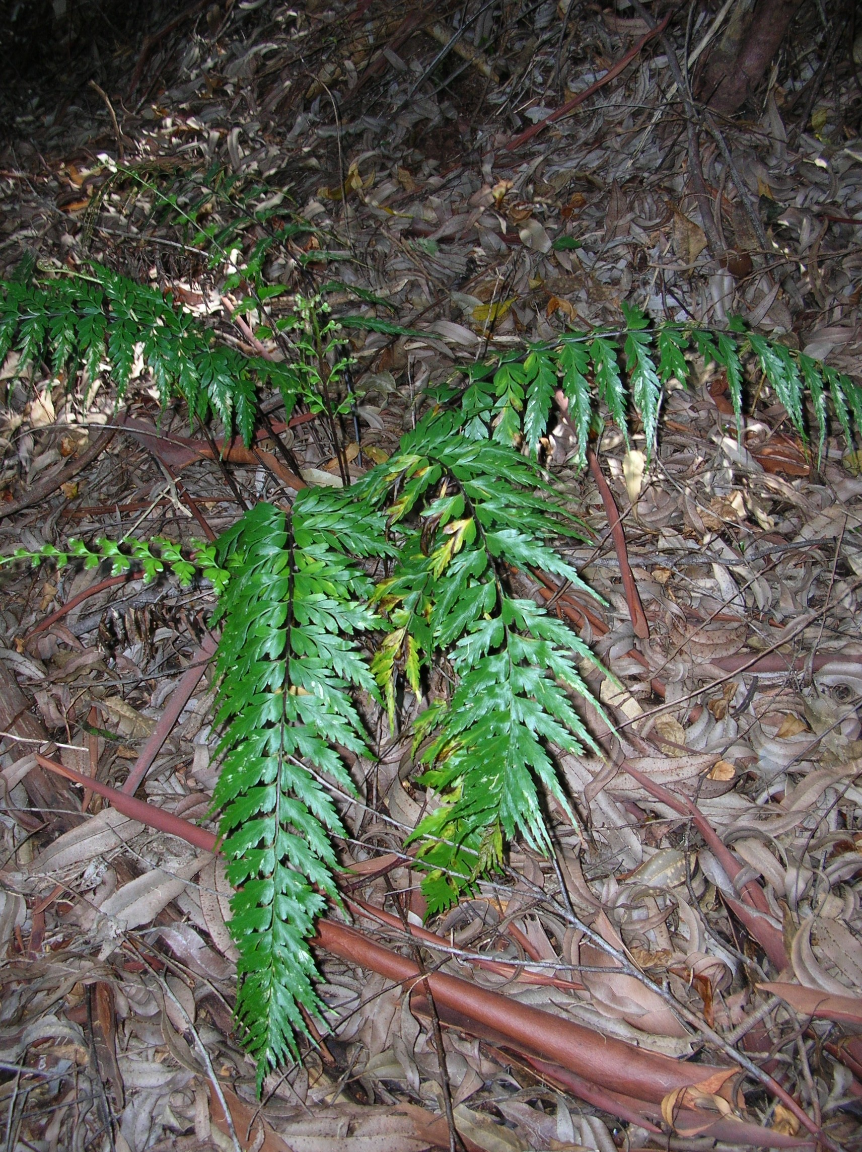 Asplenium acuminatum (habit). Location: Maui, Makawao Forest Reserve